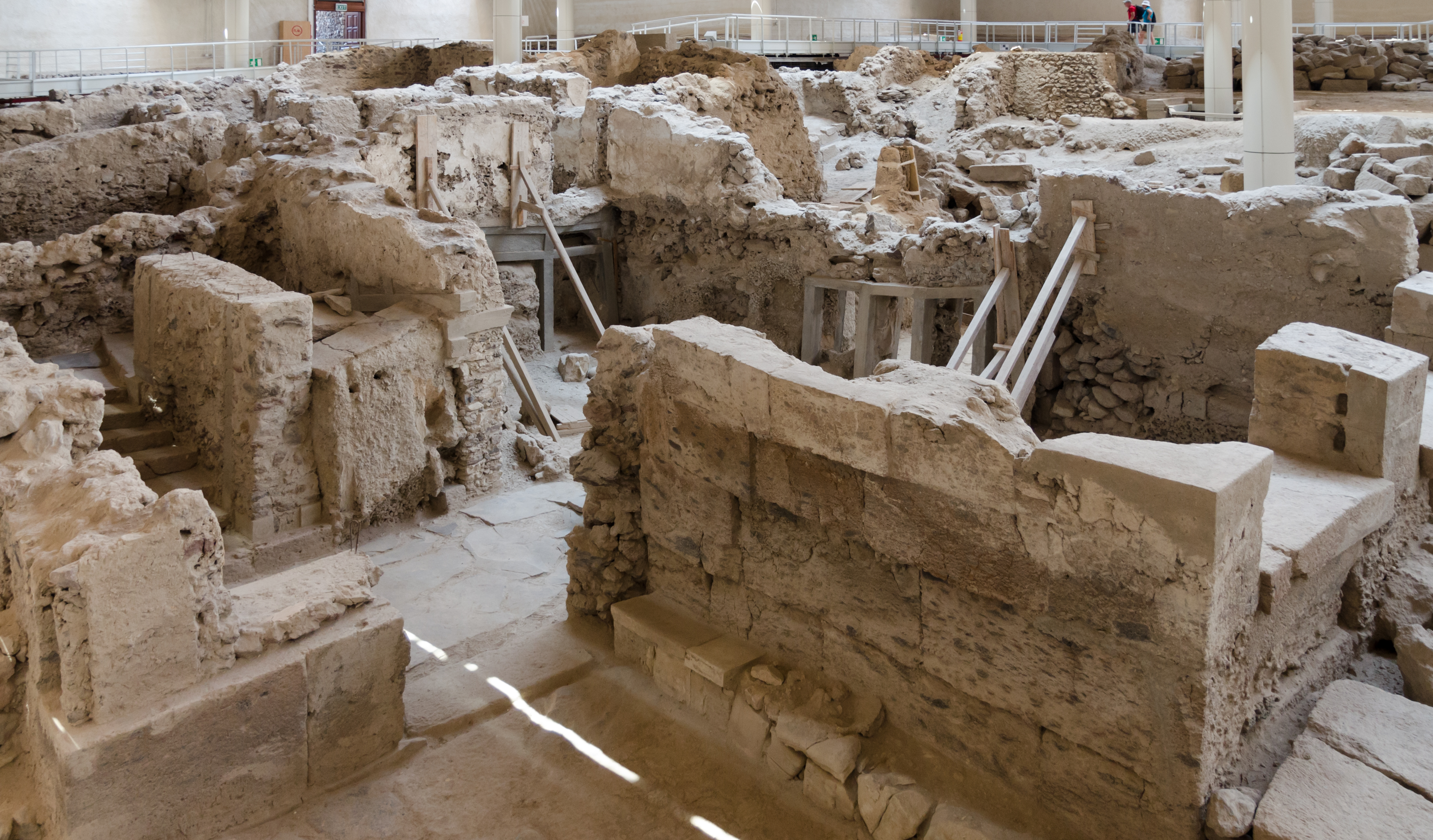 Akrotiri is the name of an excavation site of a Minoan Bronze Age settlement on the Greek island of Santorini, associated with the Minoan civilization due to inscriptions in Linear A, and close similarities in artifact and fresco styles. Akrotiri was buried by the widespread Theran eruption in the middle of the second millennium BC (during the Late Minoan IA period); as a result, like the Roman ruins of Pompeii after it, it is remarkably well-preserved.